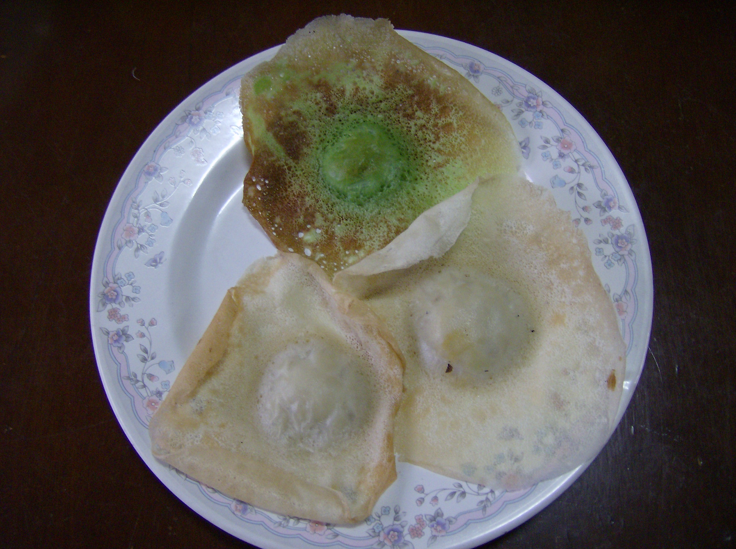 Crispy pancake made of wheat flour